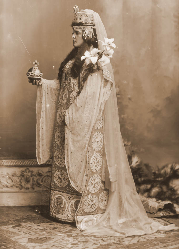 Jennie Churchill in byzantine costume as the Empress Theodora